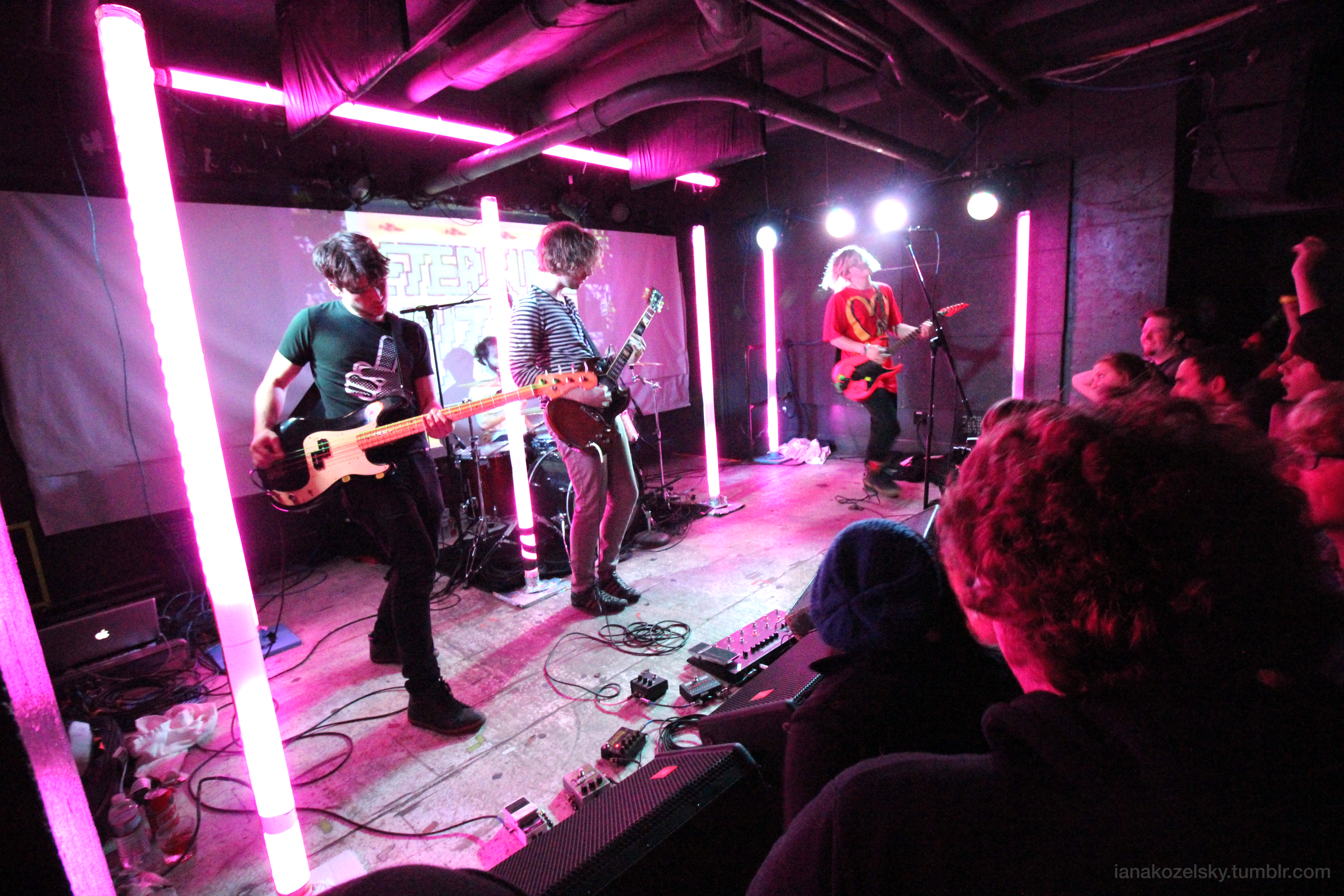 Anamanaguchi performing at U Street Music Hall in Washington, D.C. on January 14, 2015.